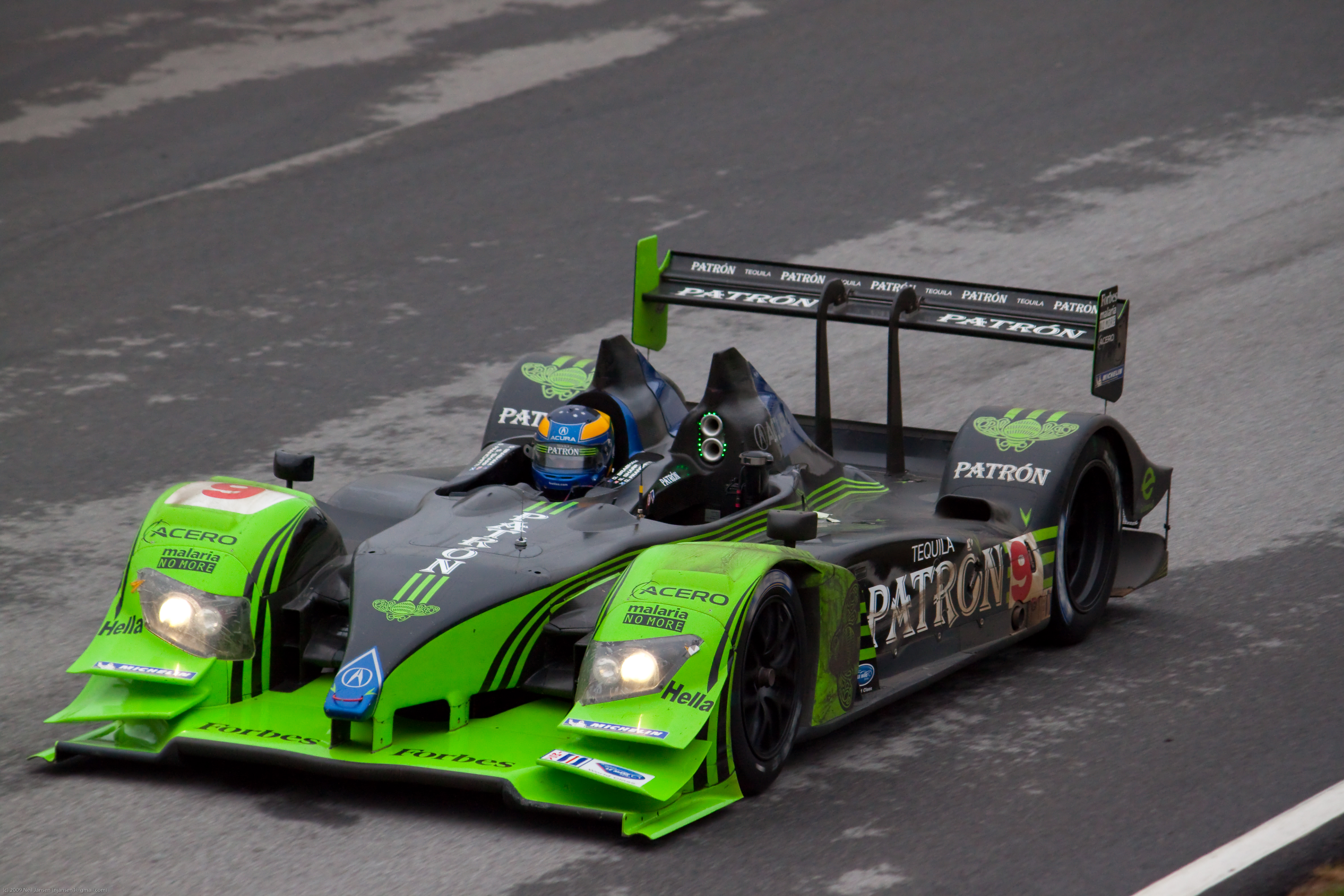 David Brabham driving a Acura ARX-02a at Petit Le Mans 2009.